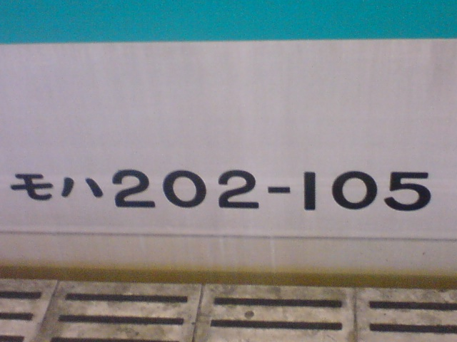 The serial number plate of JNR 203 (Train Mato 62, mass-production train)